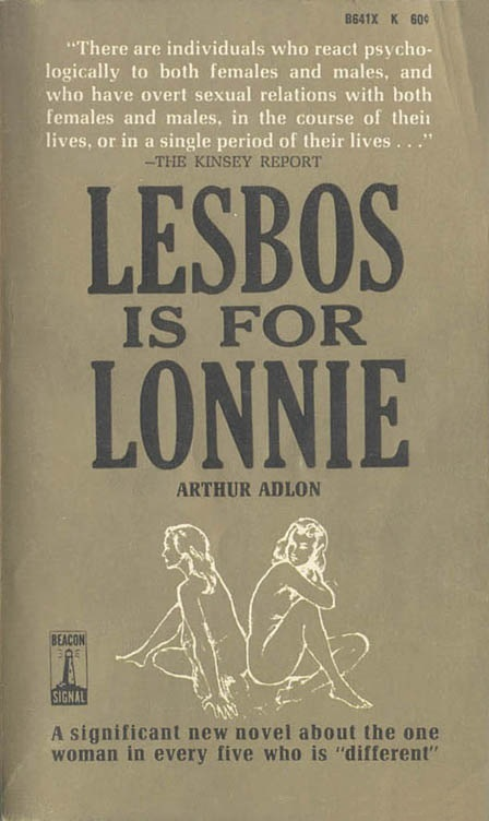 Cover of "Lesbos Is For Lonnie" by Arthur Adlon (Keith Ayling), 1963.